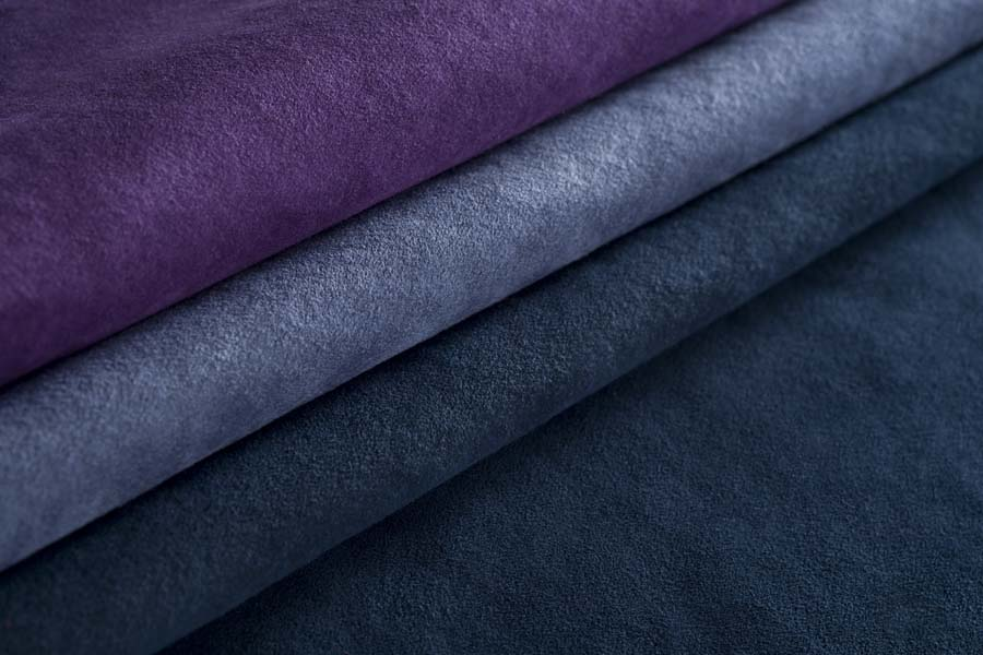 Alcantara - a microfiber polyester and polystyrene-based material, sometimes mistakenly referred to as leather or imitation leather